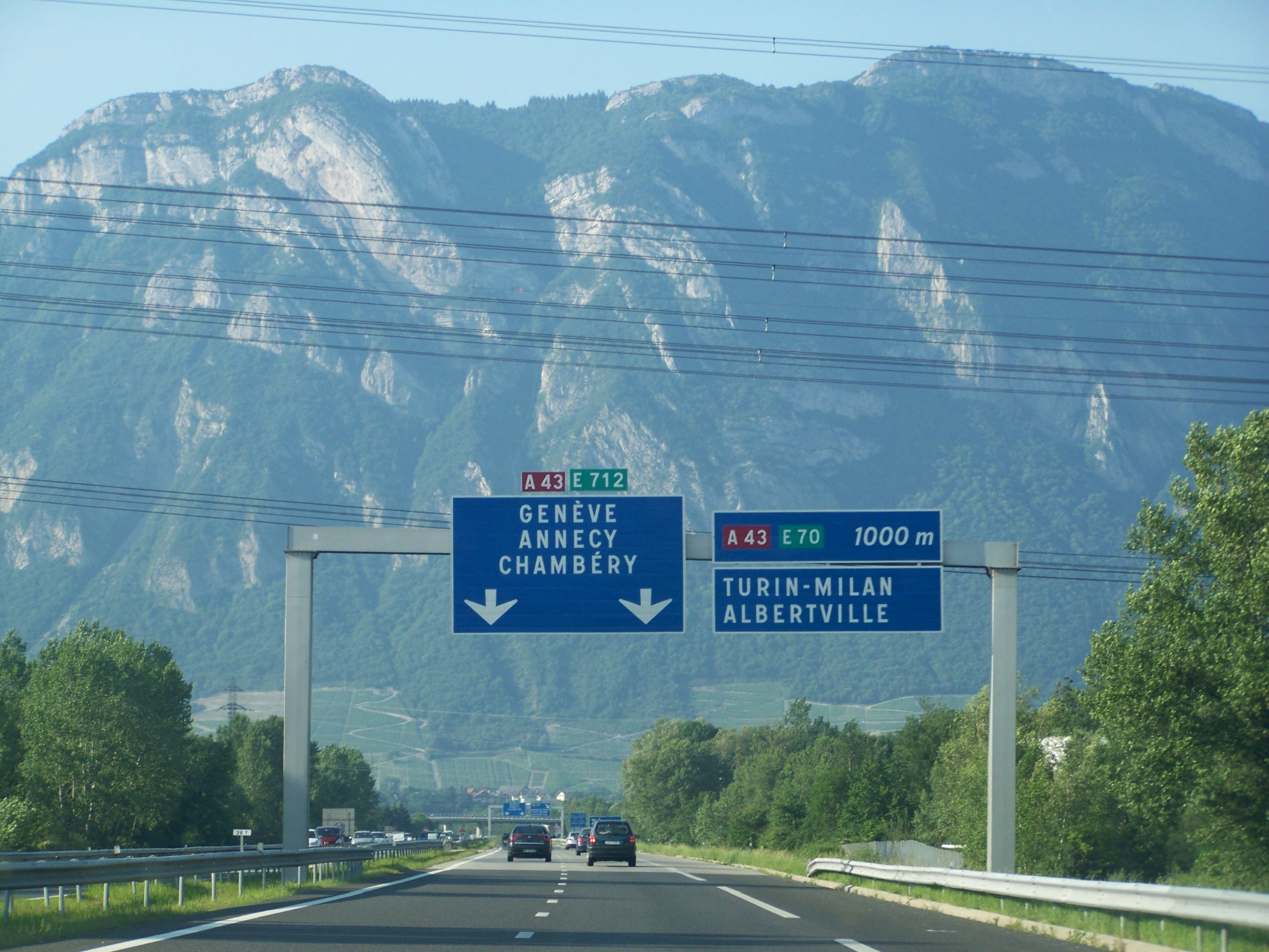 French motorway A41 from Grenoble is joining motorway A43 near Chambéry, in Savoie.